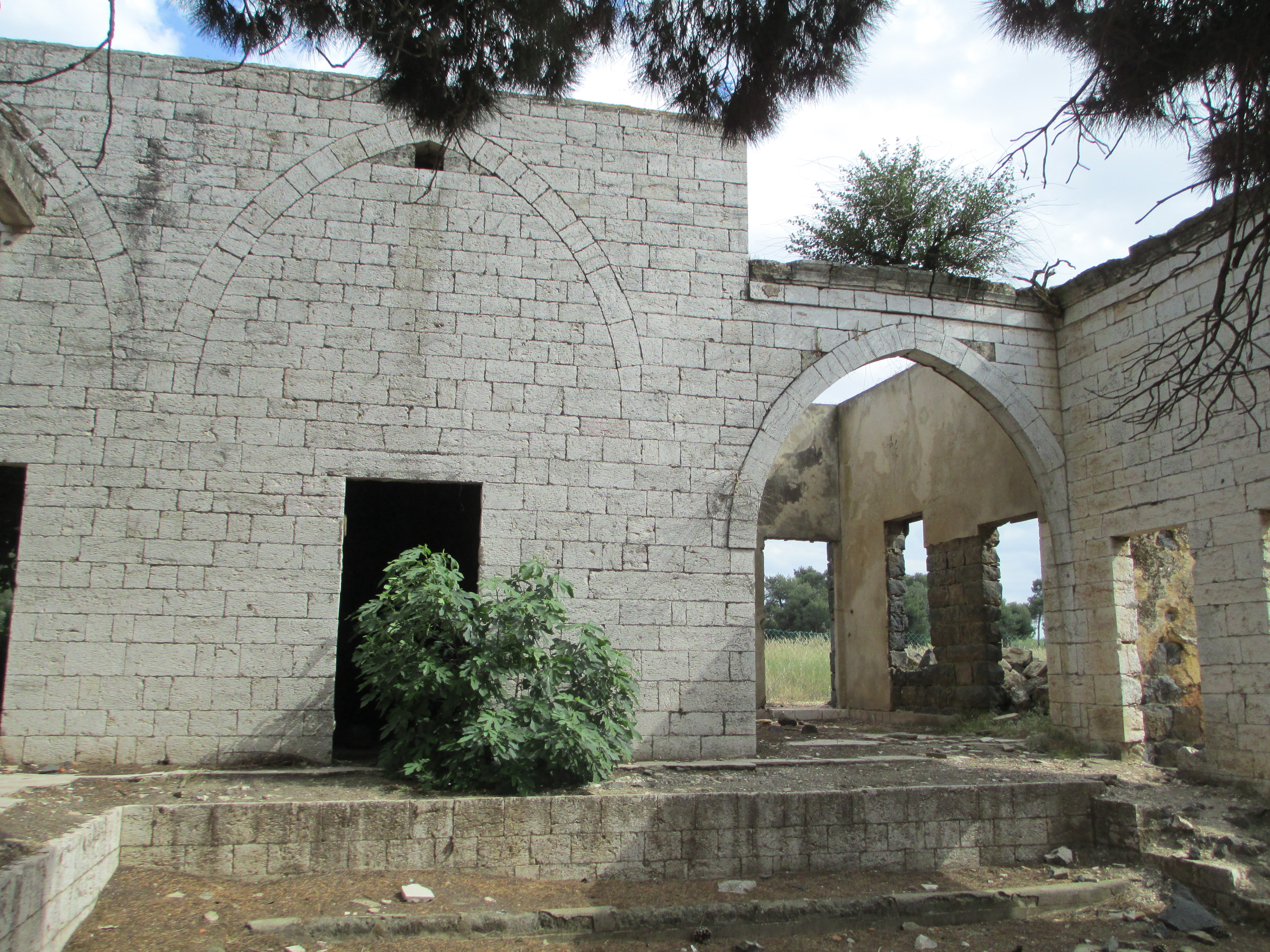 emir faours' palace in golan heights